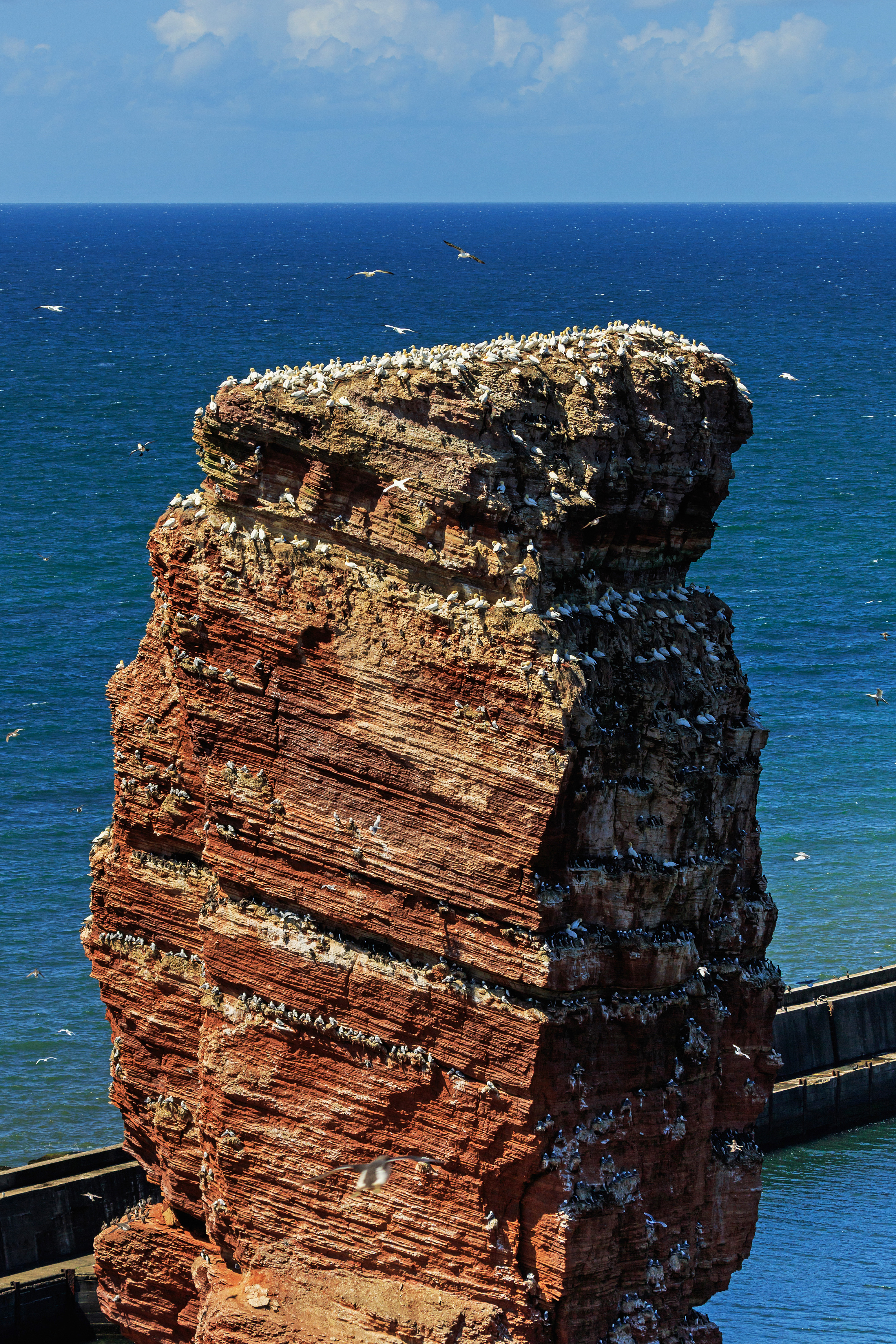 View of the cliffs from upper island of Heligoland, Germany